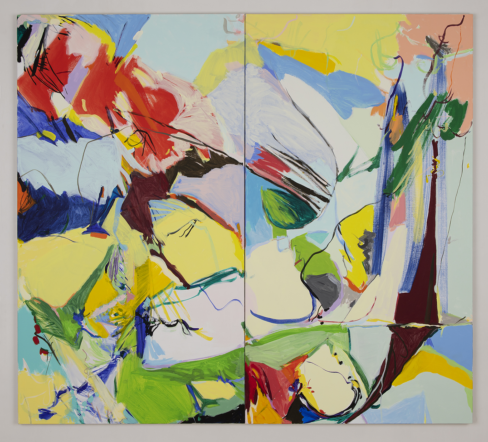 Susanne Kathlen Mader, Jardinage Impromptu V, acrylic on canvas, 2019.